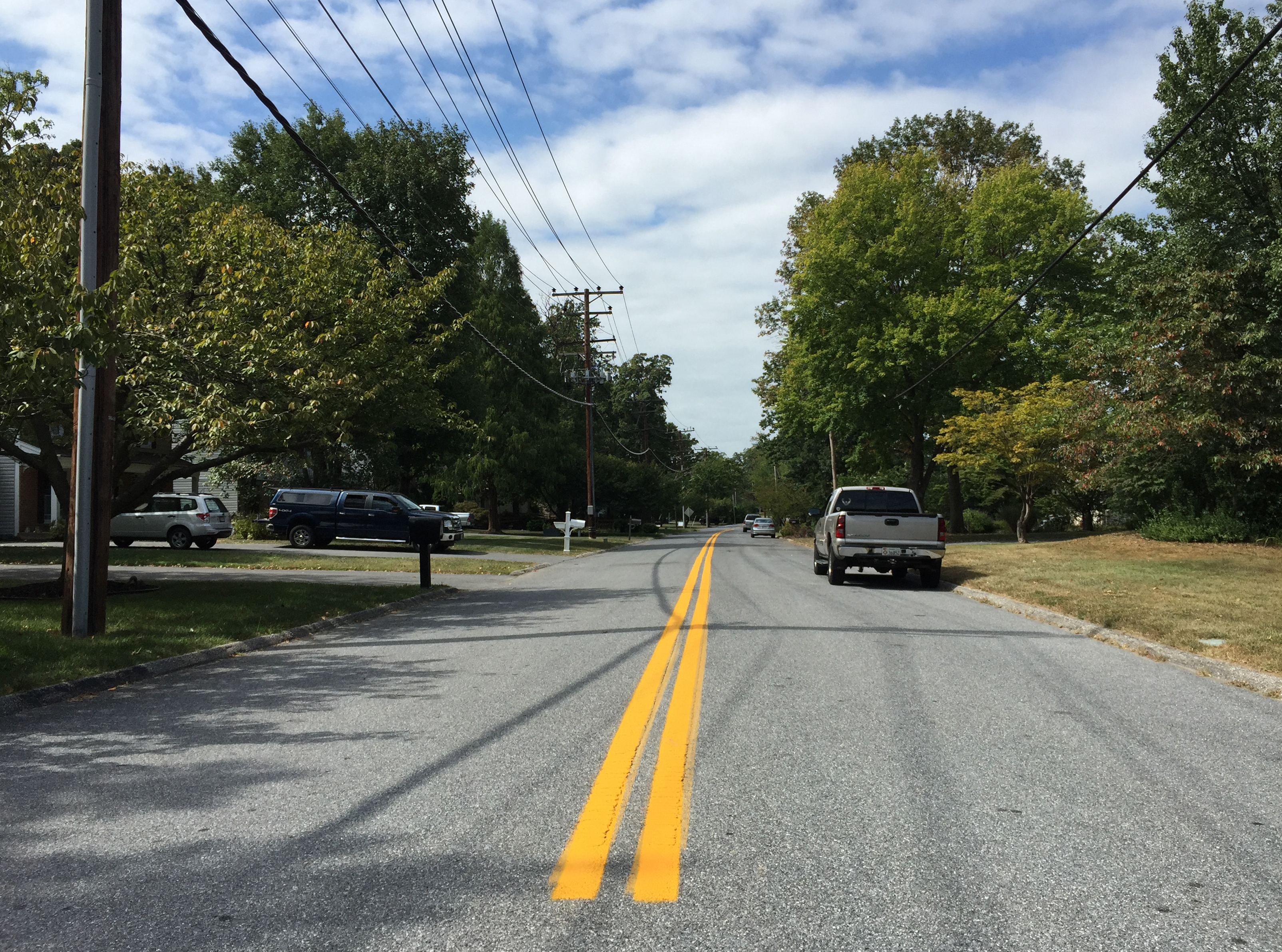 View north along Maryland State Route 983 (Scaggsville Road) just south of Doves Fly Way in Scaggsville, Howard County, Maryland